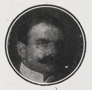 Gordon Bennett Cup in ballooning 1913. Switzerland.